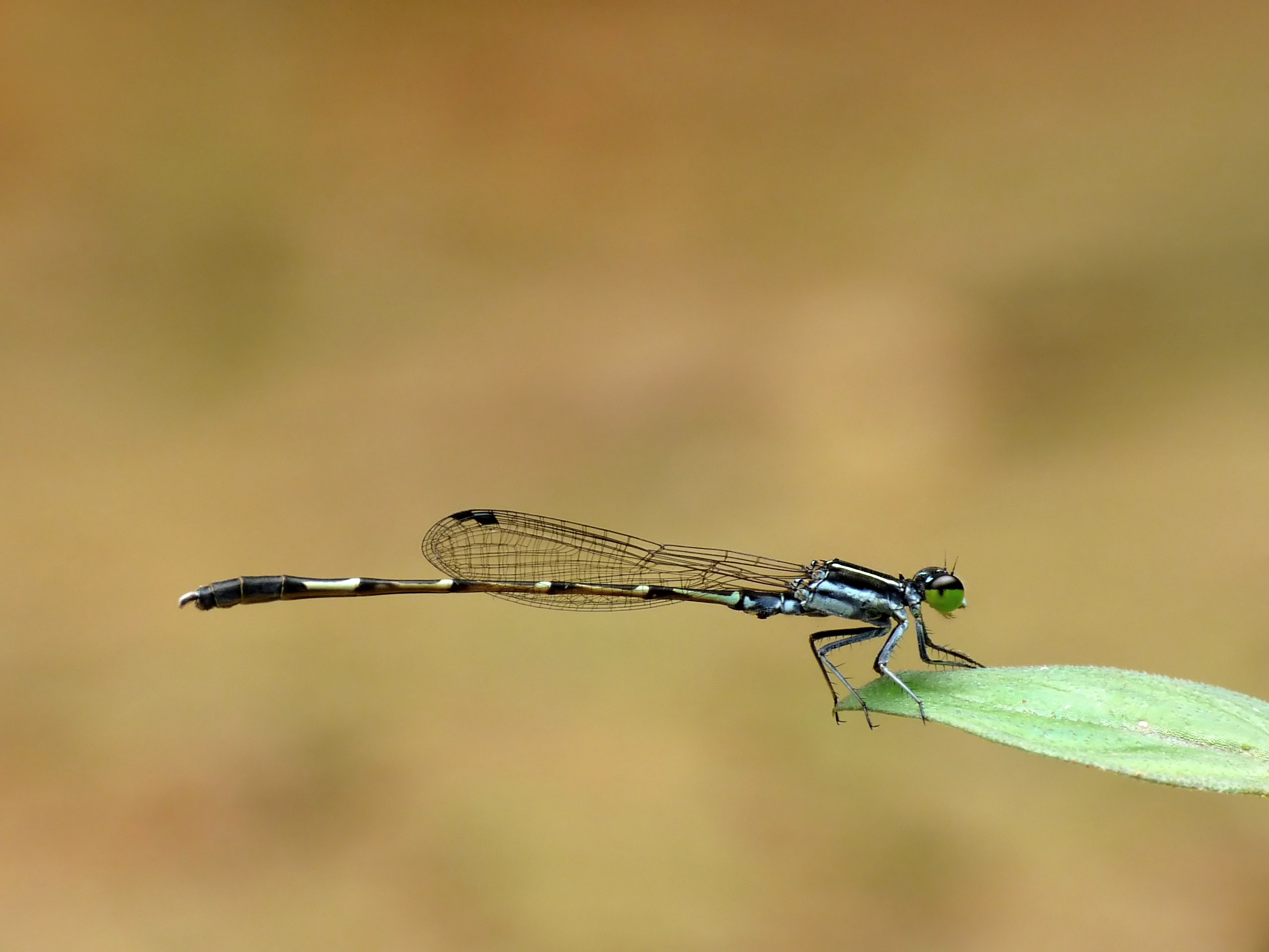 Splendid Dartlet (Agriocnemis splendidissima), male A small black and blue damselfly with greenish blue eyes. Eyes are black above, greenish blue below, with a fine brown equatorial belt. Thorax is black with narrow greenish blue dorsal stripe. Two broad lateral blue stripes are also present. Abdomen is blue with extensive black markings. The dorsal surface of first and second segment has extensive black markings. The black markings on segments 3-7 are spatula shaped and remaining segments are black with blue ventral sides. This damselfly is closely associated with streams and lakes which have emergent aquatic vegetation. Taken at Kadavoor, Kerala, India.